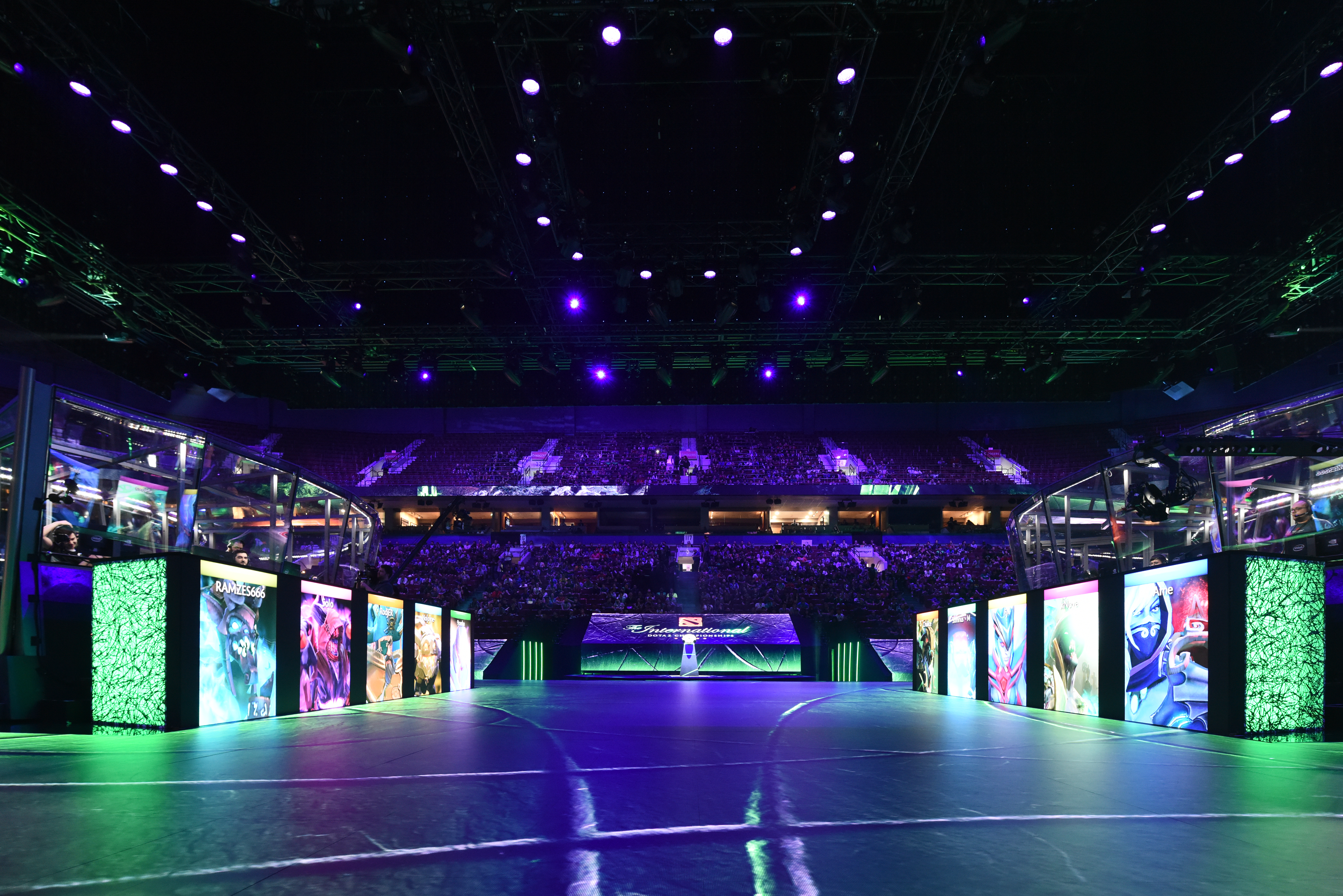 The International 2018